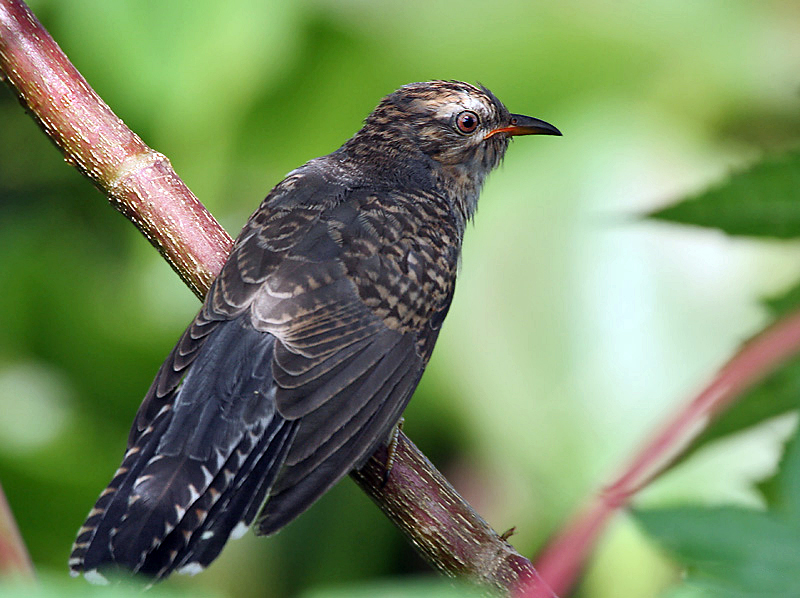 Plaintive Cuckoo Cacomantis merulinus in Kolkata, West Bengal, India.